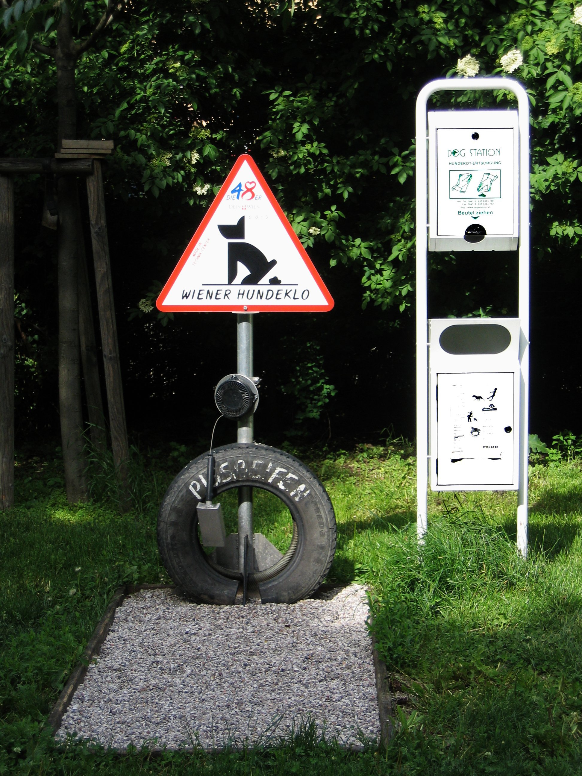 Public "dog loo" (litter box for dogs) in a dog park in Vienna, Austria. The picture shows: A triangular sign with a black dog symbol and the label "Wiener Hundeklo" (lit. German for: Viennesse dog loo) An old tire, labeled "Pissreifen" (lit. German for: piss tire), which serves as a substitute for a tree; The litter-box itself, filled with pebbles A small shovel, permanently tied to the metal rod of the sign A white metal frame with two mounted boxes, the upper one contains plastic bags for wrapping up the excrements, while the lower one is intended for the disposal of said filled bags